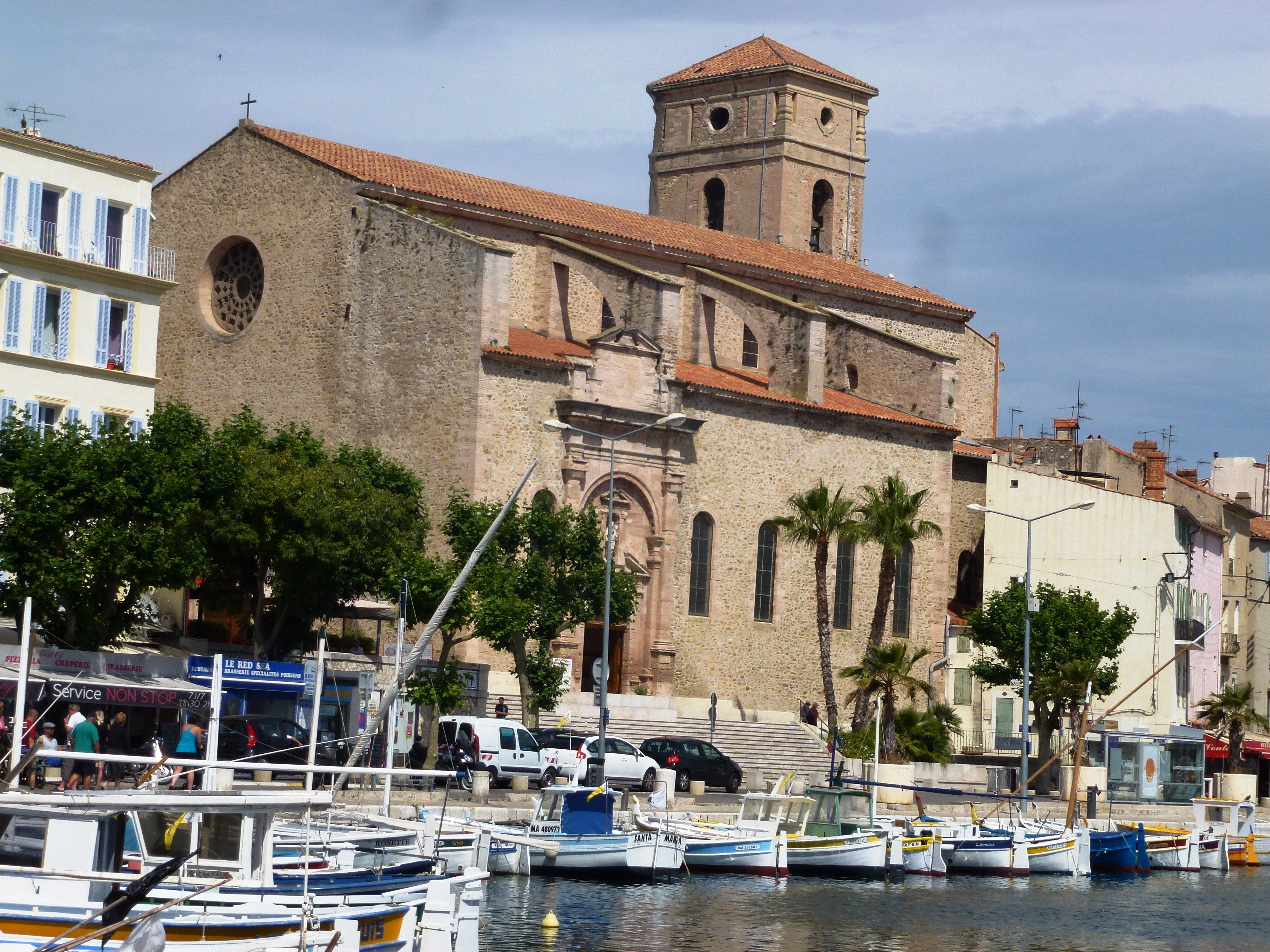 La Ciotat - church at the port